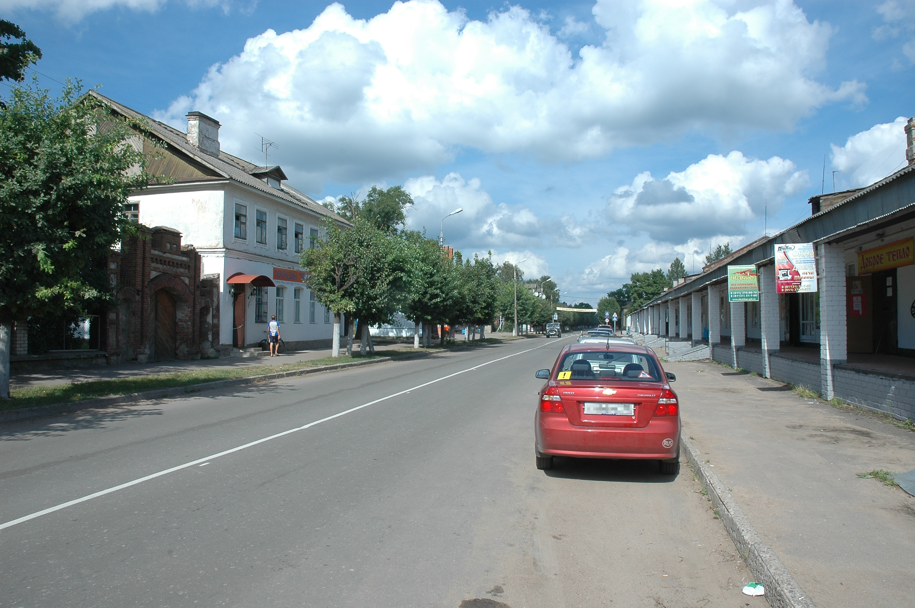 Karl Marx street, the main street of the town of Gdov.